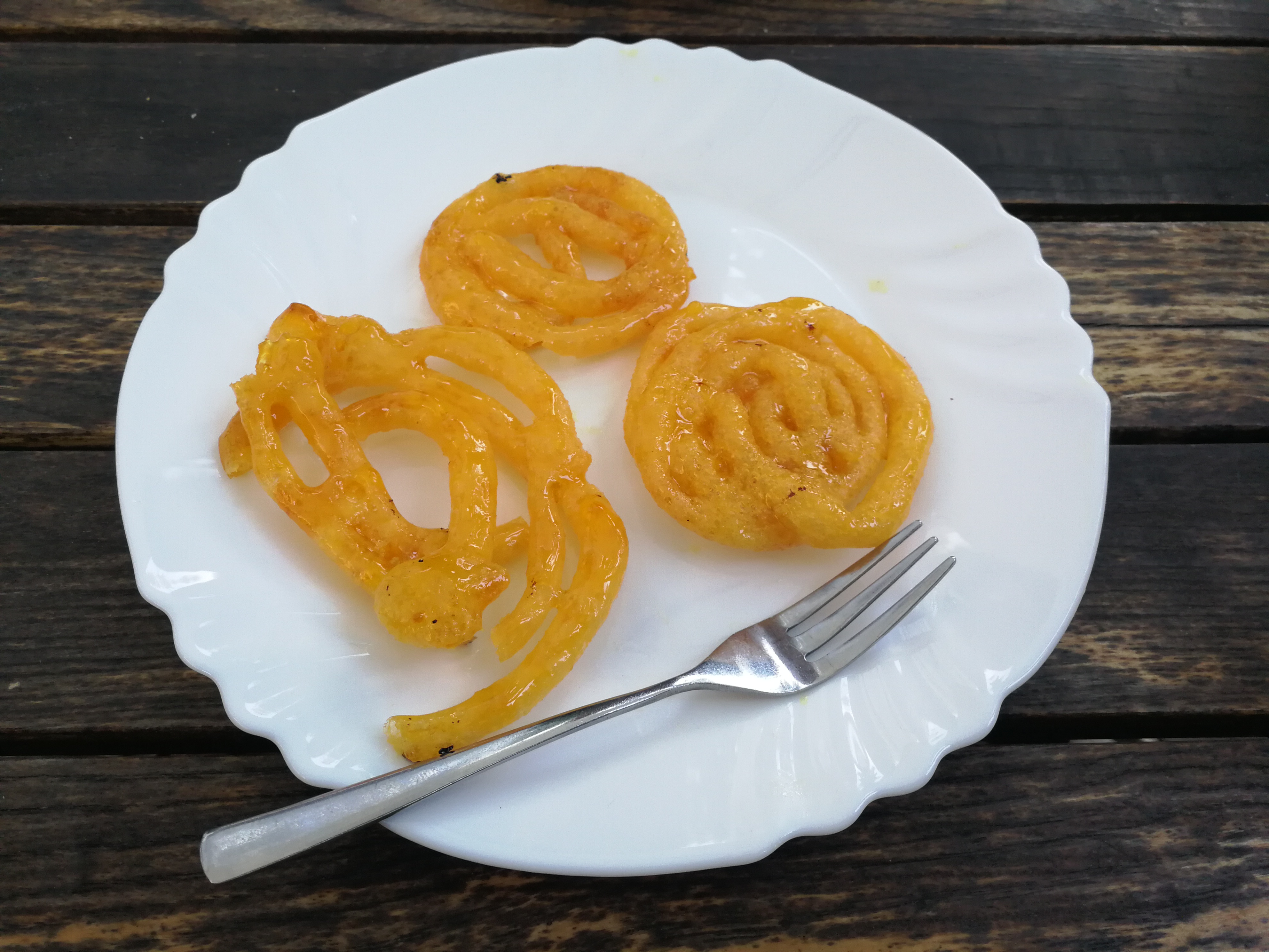 Jalebi. Afghan dessert. Also available in many other Asian and Middle East countries, sometimes under the name of zulbia.